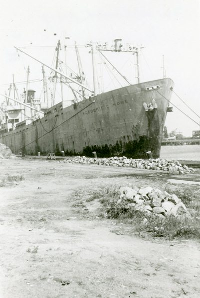 Citation: C. Milford Paul Papers, 1942-2011. Seagoing Cowboys Photographs, 1946. HM1-739 Box 1 Folder 6. Mennonite Church USA Archives - Goshen. Goshen, Indiana.